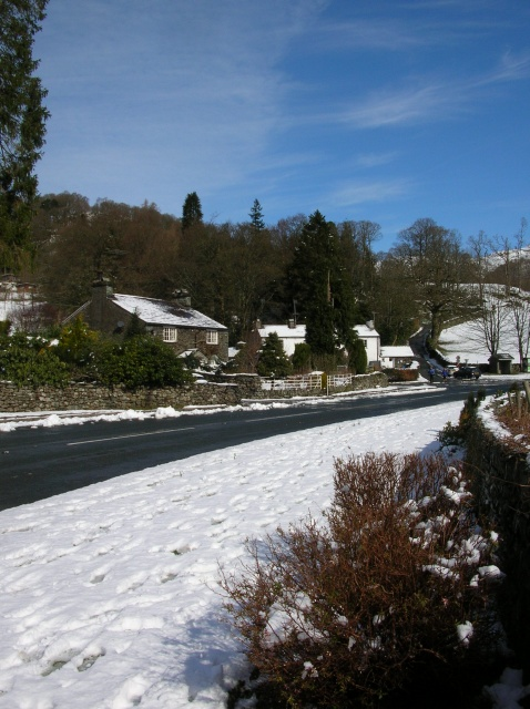 Skelwith Bridge A small village with slate works situated between Ambleside and Coniston.